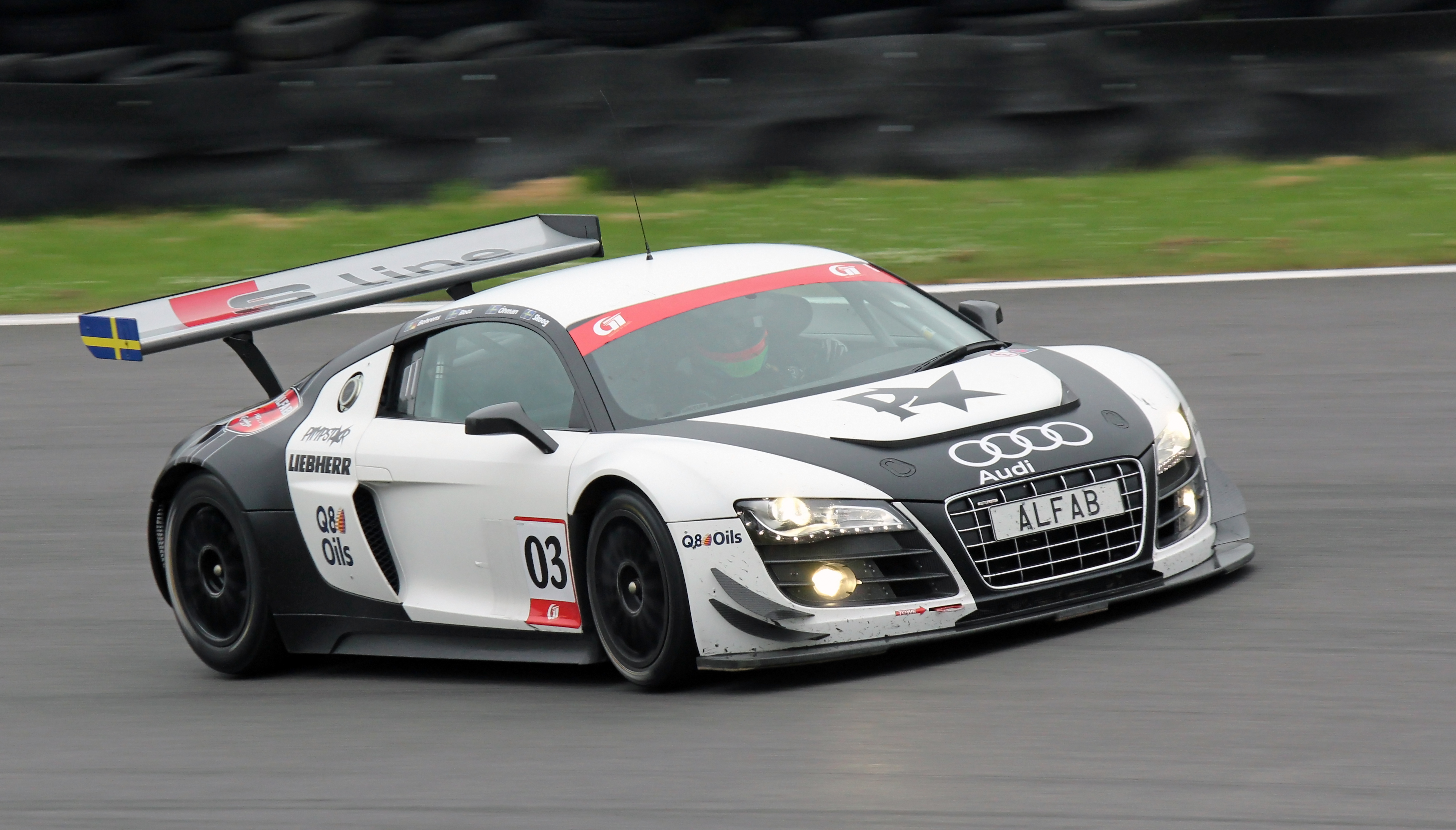 Daniel Roos in a Audi R8 LMS GT3 for Alfab Racing in Swedish GT Series at Falkenbergs Motorbana in 2012. His team mate was Erik Behrens.